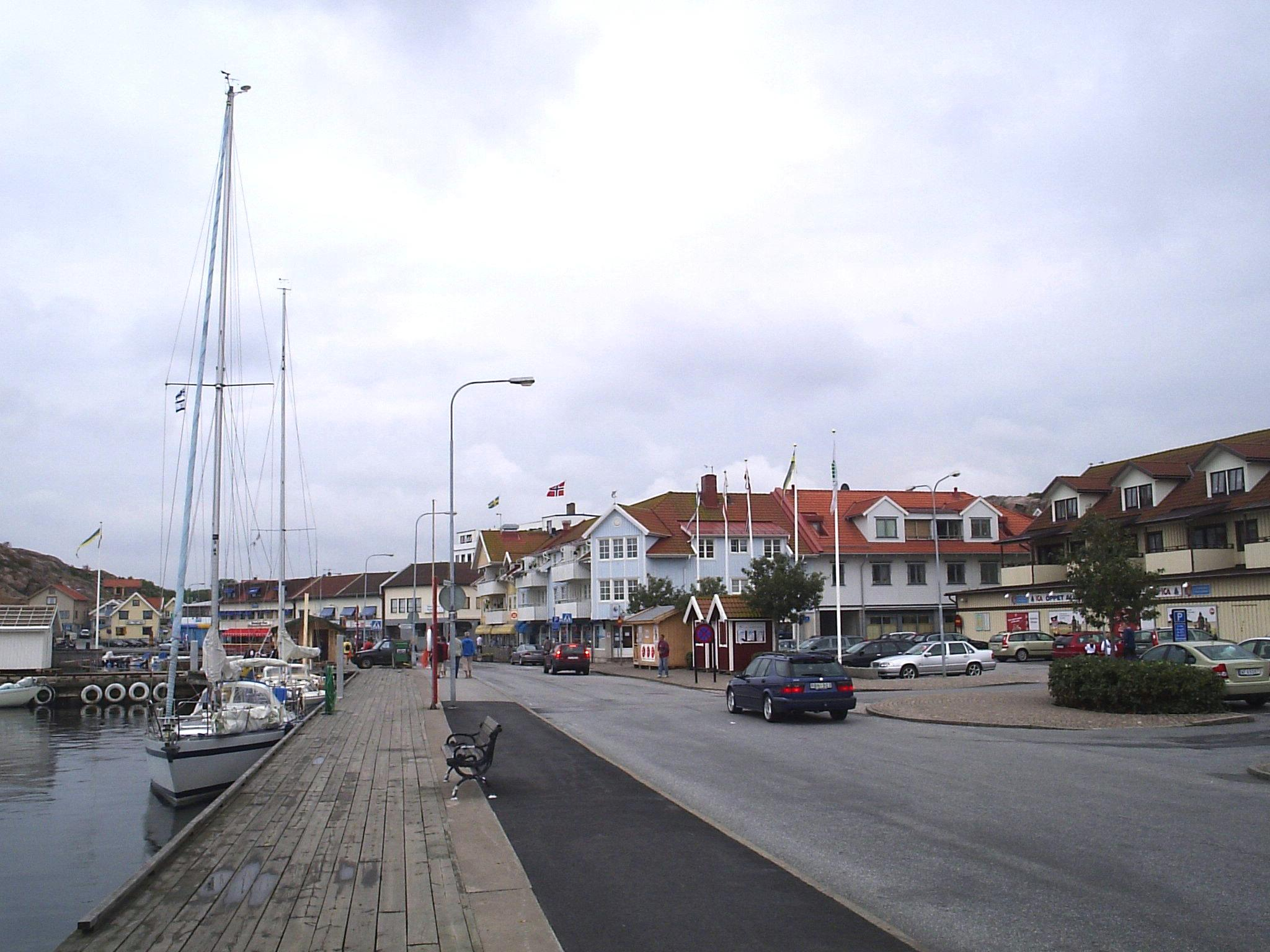 Photo by Harri Blomberg.